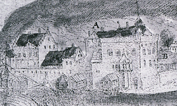 Detail of Håkonhallen and Rosenkrantztårnet in Scoleusstikket from 1580